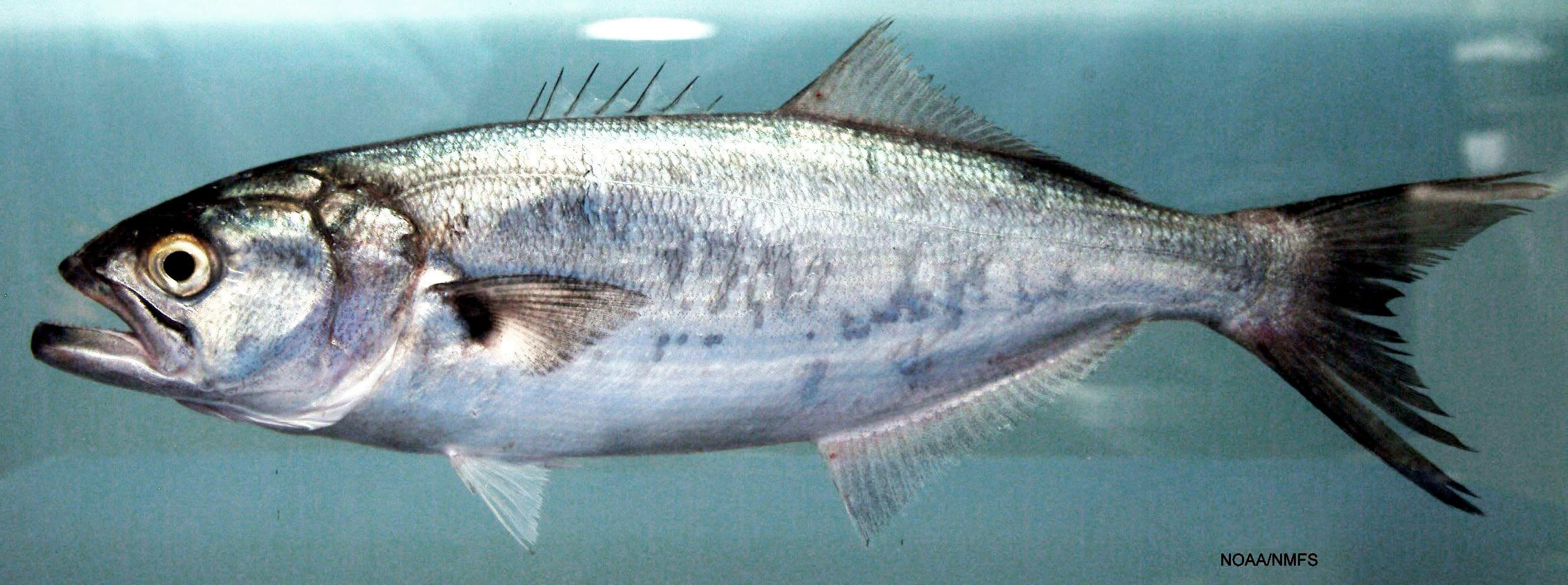 Bluefish ( Pomatomus saltatrix ). Gulf of Mexico.